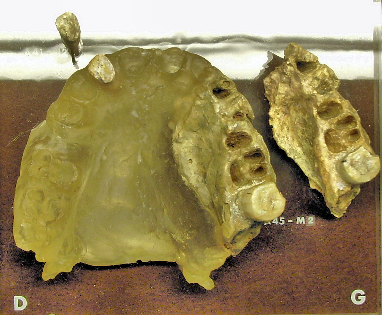 Fossil Arago XLV = Homo erectus from Tautavel, France (replica, Museum Tautavel)